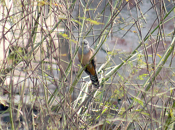 Plaintive Cuckoo Cacomantis merulinus in Kolkata, West Bengal, India.